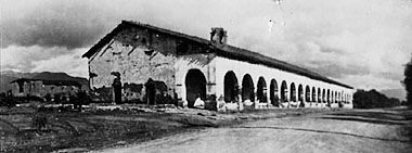 San Fernando Rey de Espana circa 1910.